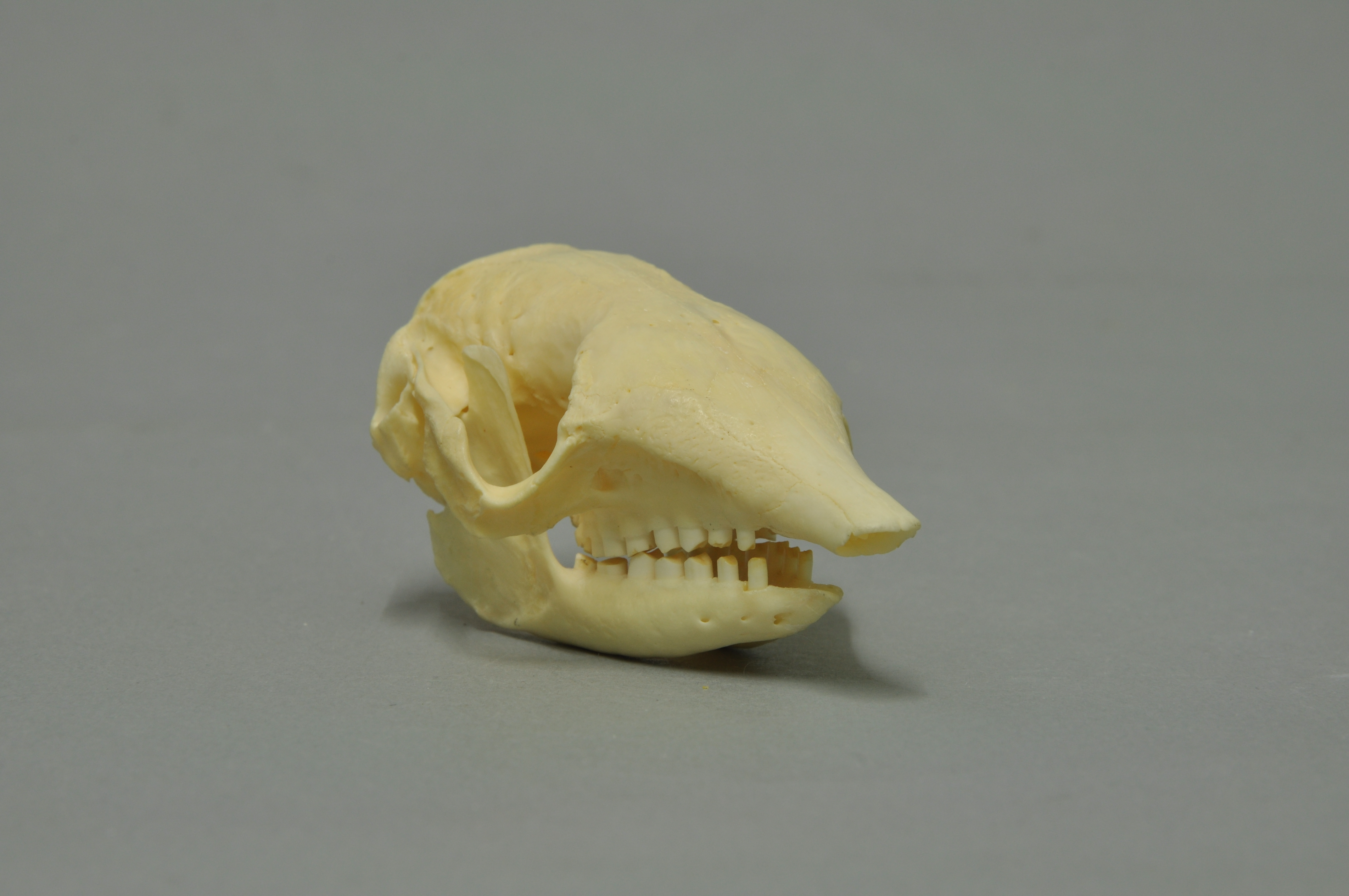 Six-banded armadillo Euphractus sexcinctus, skull, Coll. Museum Wiesbaden